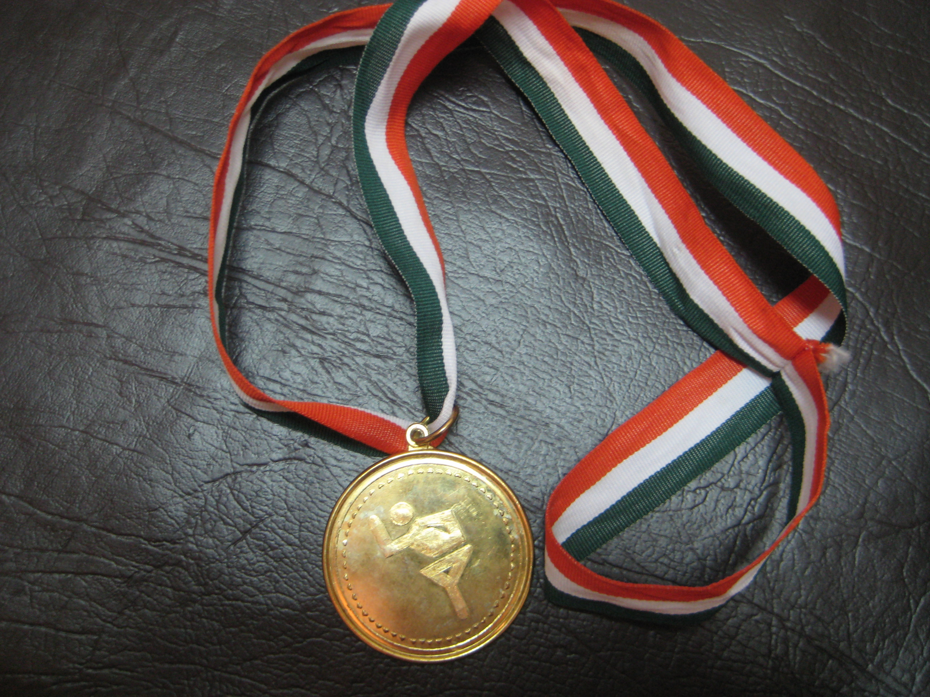 Gold Medal